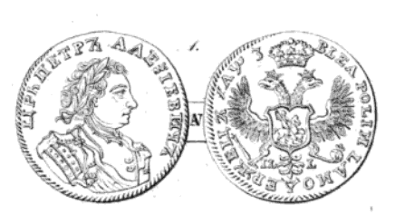 Denomination: Chervonets Years: 1707 Material: AV (Gold) Description: Peter I, Russia Localisation: ?